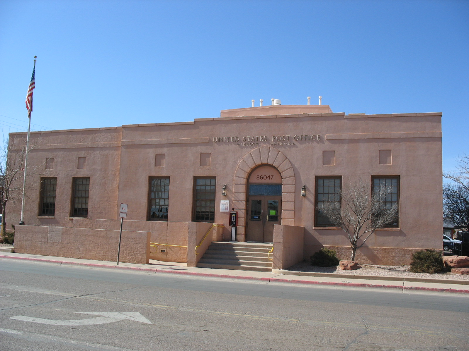 Post office in Winslow, Arizona 85047